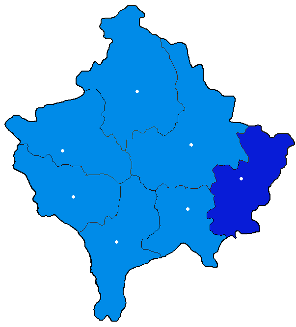 Map of Gnjilane